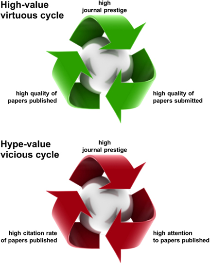 Journal prestige creates its own reality through two types of self-fulfilling prophecy. The first type (top) is a virtuous cycle, in which high prestige leads to high-quality submissions. As a result, the papers selected for publication are also of higher quality, which in turn contributes to journal prestige. This cycle is virtuous because it makes journal prestige a somewhat reliable signal. The second type of self-fulfilling prophecy (bottom) is a vicious cycle, in which high prestige leads to high attention being paid to papers (even those of lesser quality). This boosts their citation rate, which in turn contributes to journal prestige. This cycle is vicious because it compromises the reliability of journal prestige as an evaluative signal. In the current system, journal prestige is the only evaluative signal available for new papers, so it is widely relied upon by scientists, despite its limited reliability.